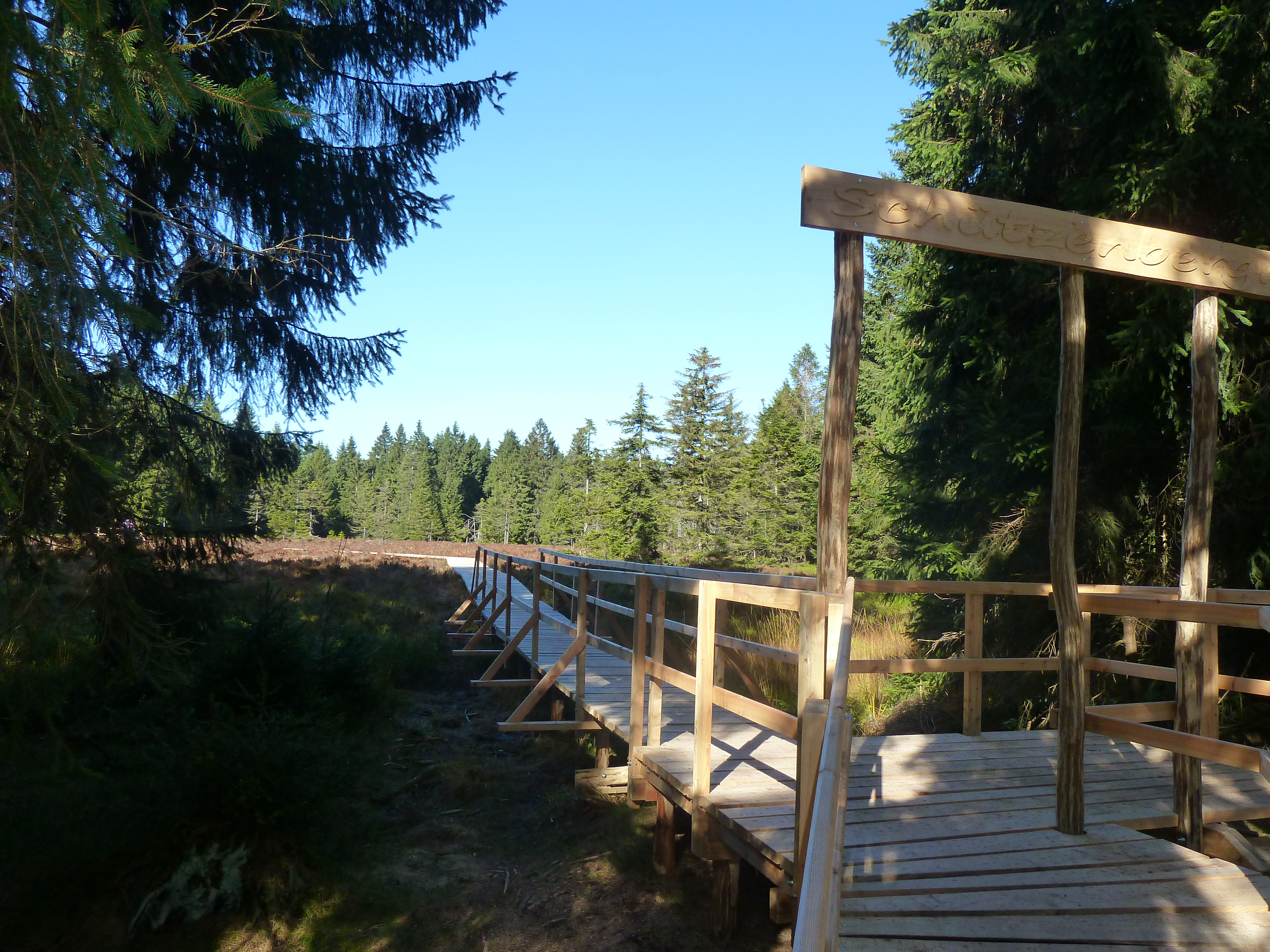 View to the Schützenbergmoor